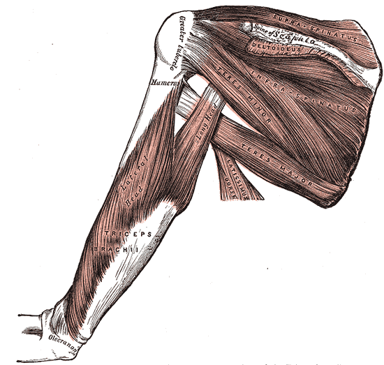 Picture of the arm and shoulder muscles